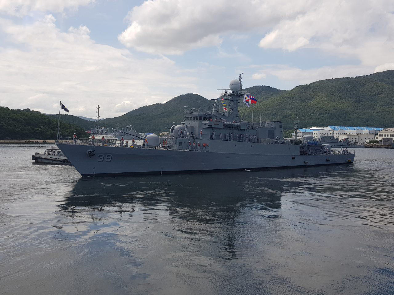 The BRP Conrado Yap (PS-39) is now sailing home to the Philippines at South Korea. Owned by Philippine Navy and it is public domain.